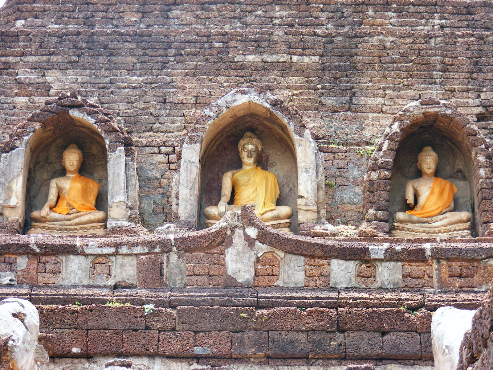 Si Satchanalai historical parkLocation: Si Satchanalai, Sukothai Province, Thailand.